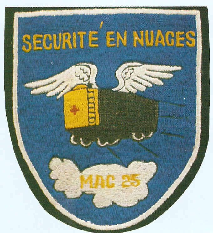 Scanned from *Millstein, Jeff. (1995). United States Marine Corps Aviation Squadron Unit Insignia, 1941 - 1946. Turner Publishing Company. ISBN 1-56311-211-6.